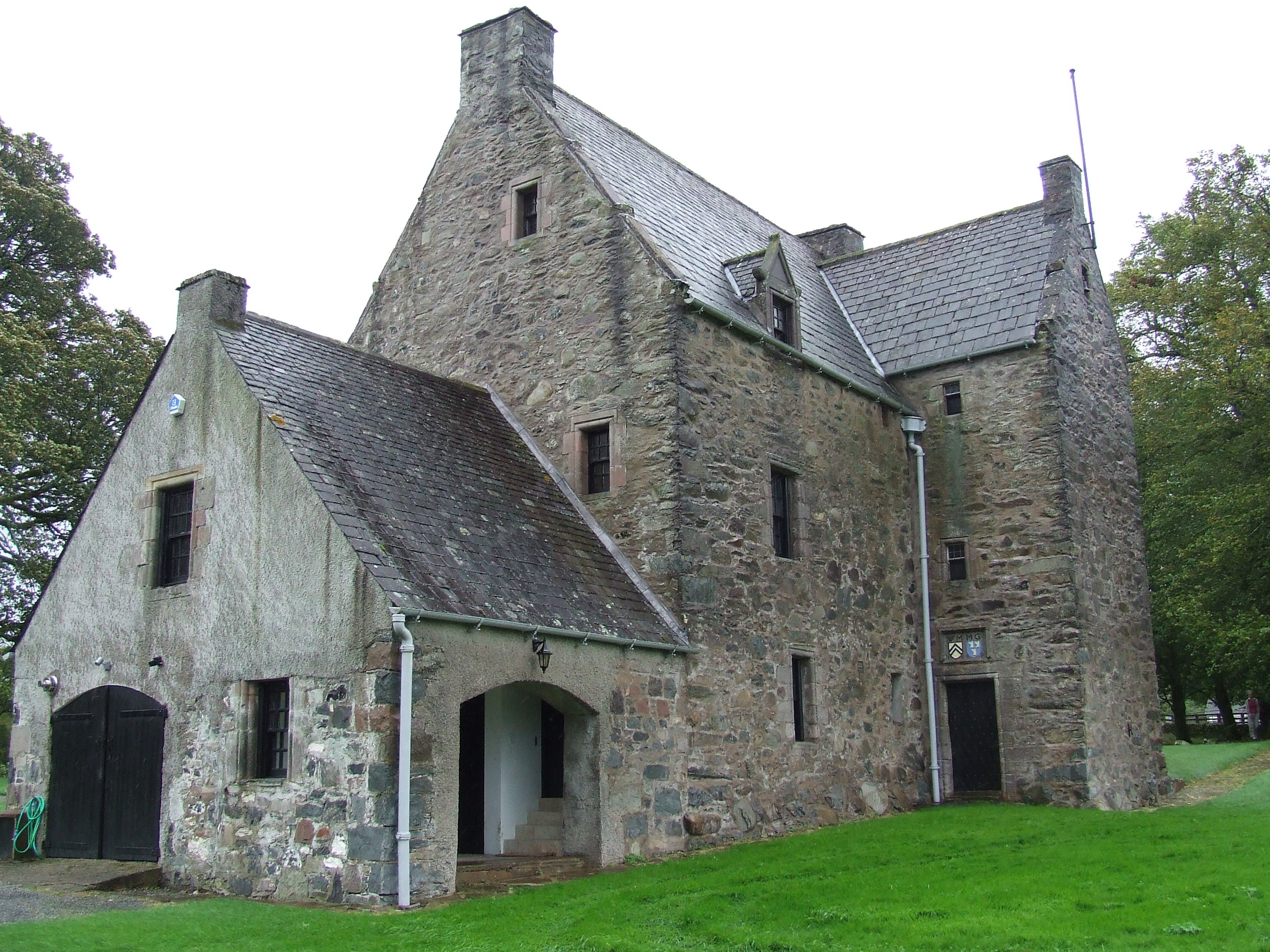 view of Barscobe Castle near Balmaclellan, Dumfries & Galloway. Taken 12 Sept 2011.